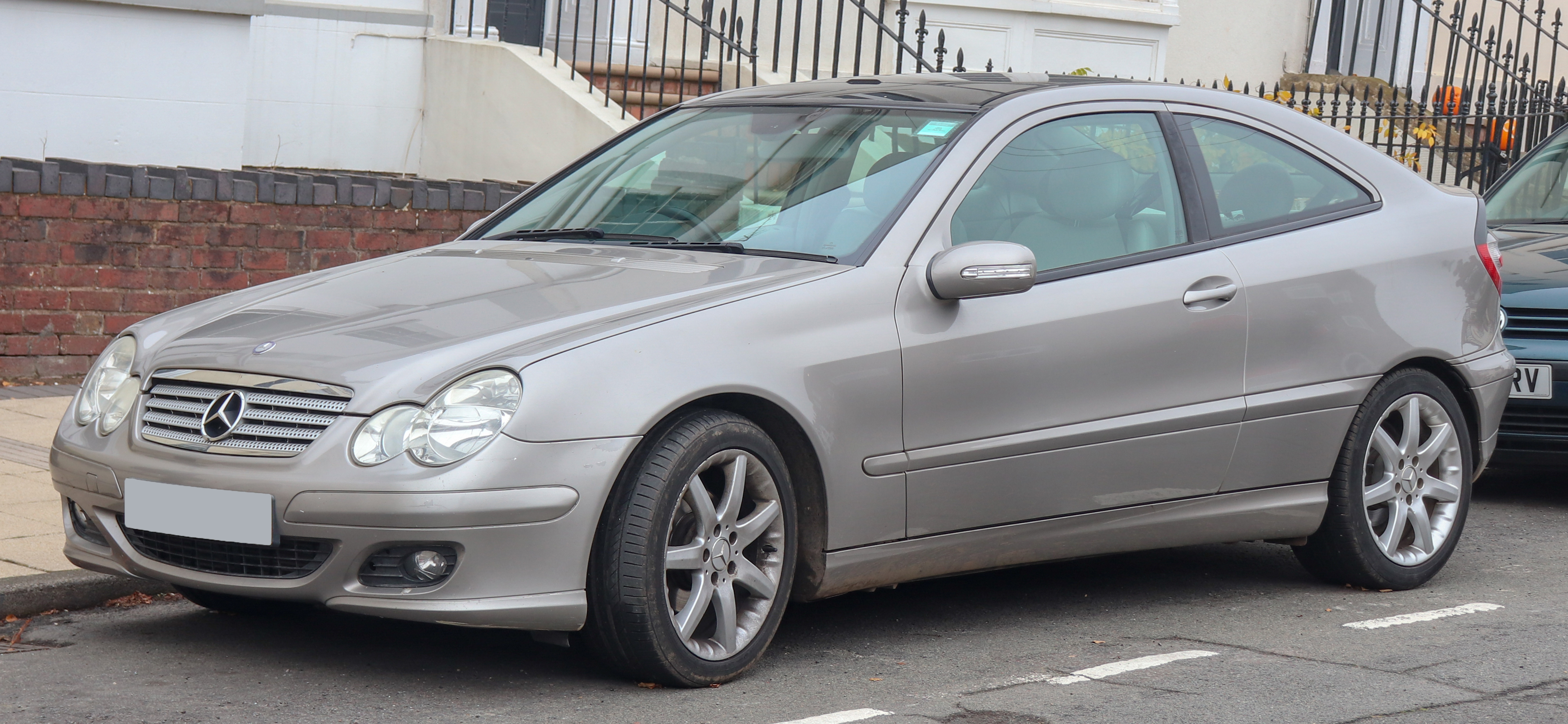 2006 Mercedes-Benz C220 CDi SE Automatic 2.1 Front Taken in Leamington Spa